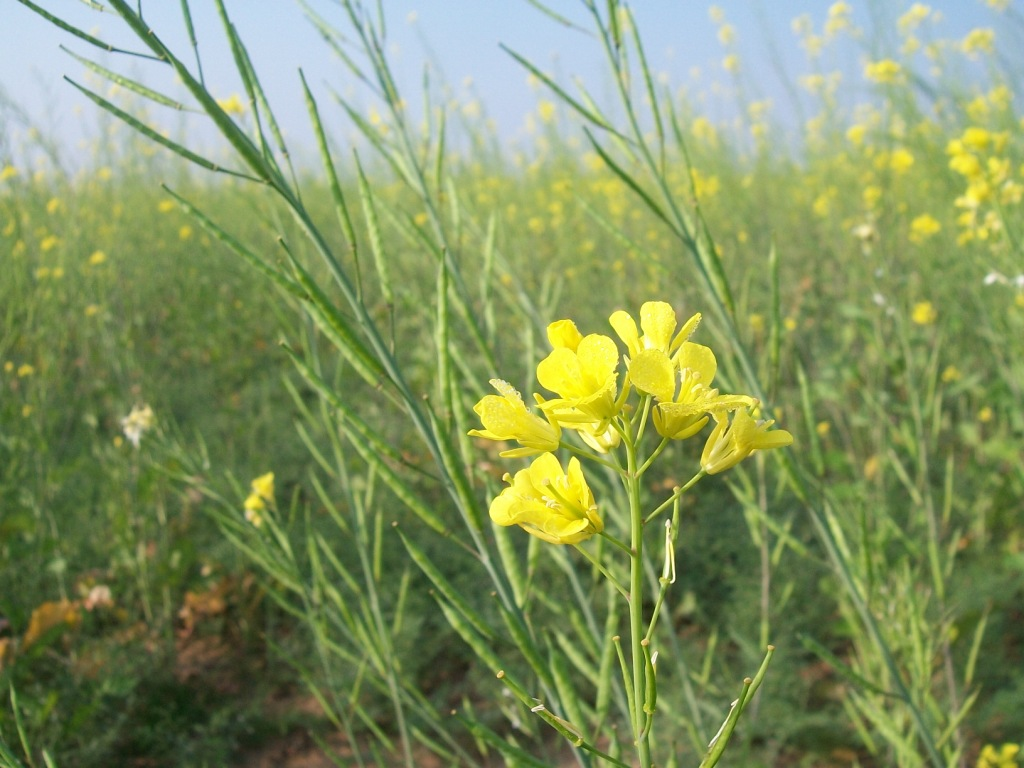 A Mustured Field